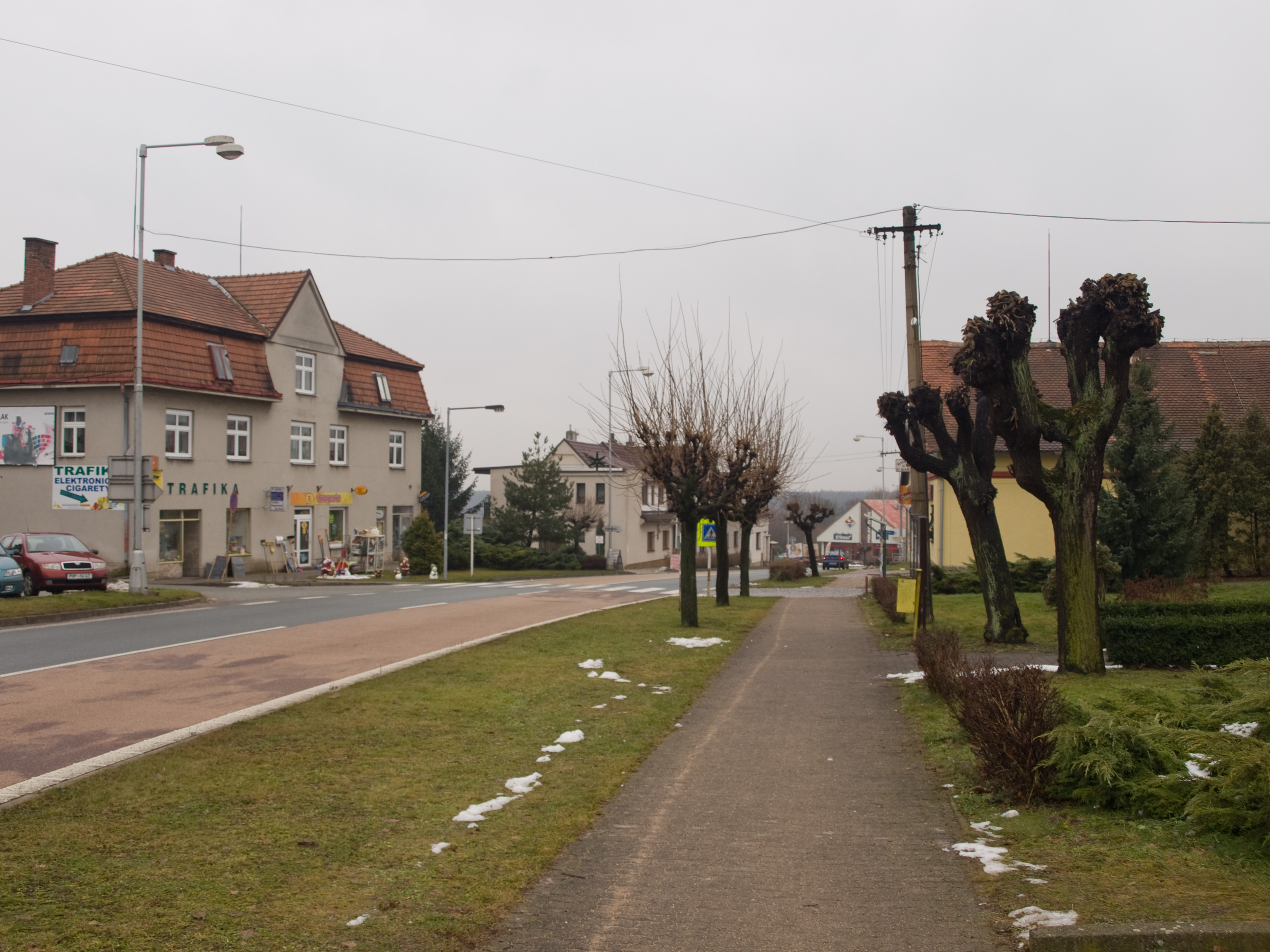 Rohovládova Bělá, Pardubice District, Pardubice Region